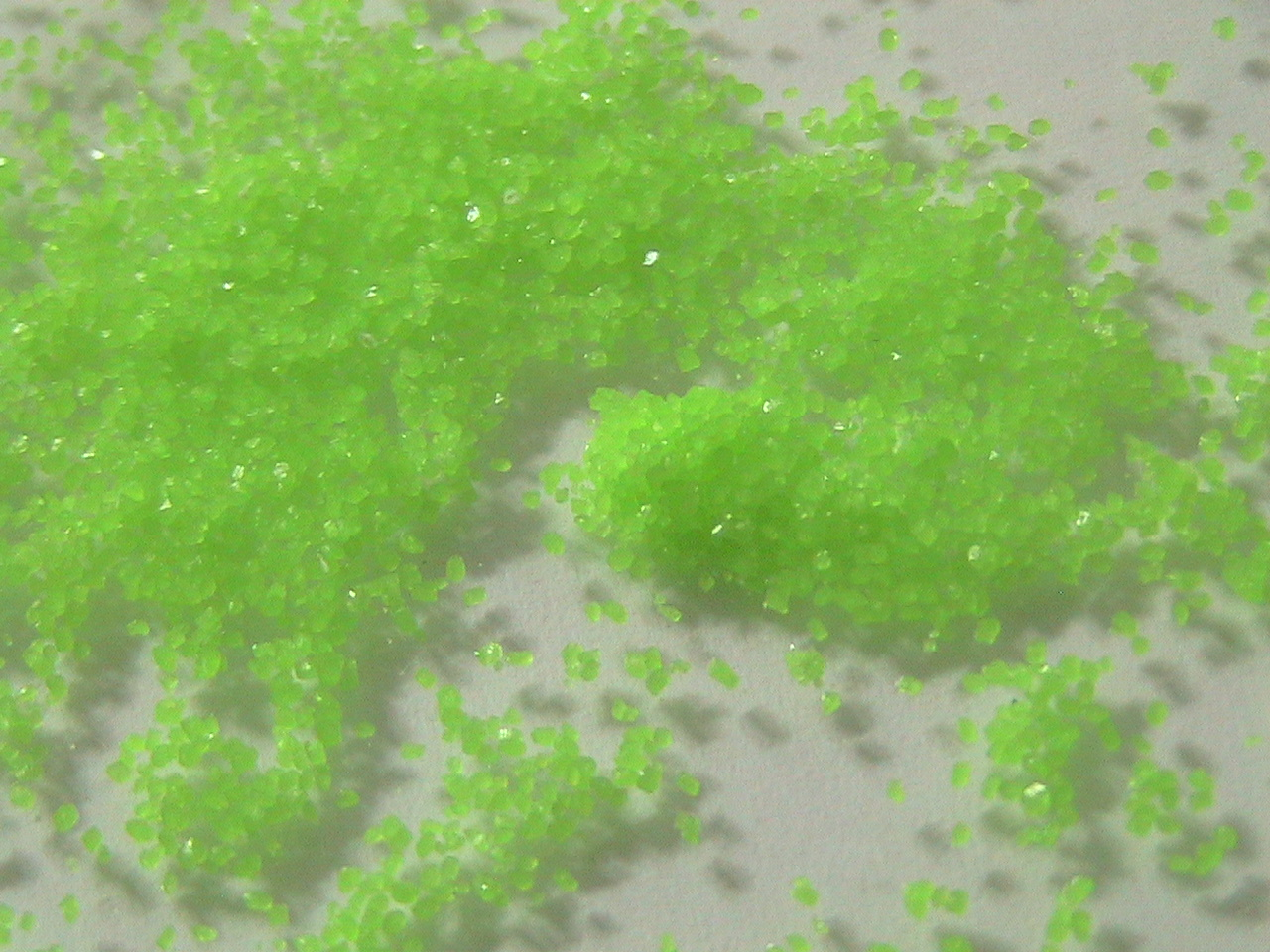 Petri dish containing crystals of praseodymium sulphate octahydrate, crystallised from solution at room temperature.